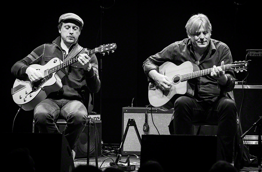 Adrien Moignard and Jon Larsen performs at Cosmopolite during the Django festival 2016.